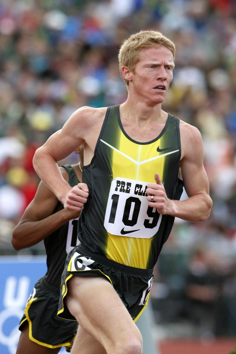 Matt Tegenkamp